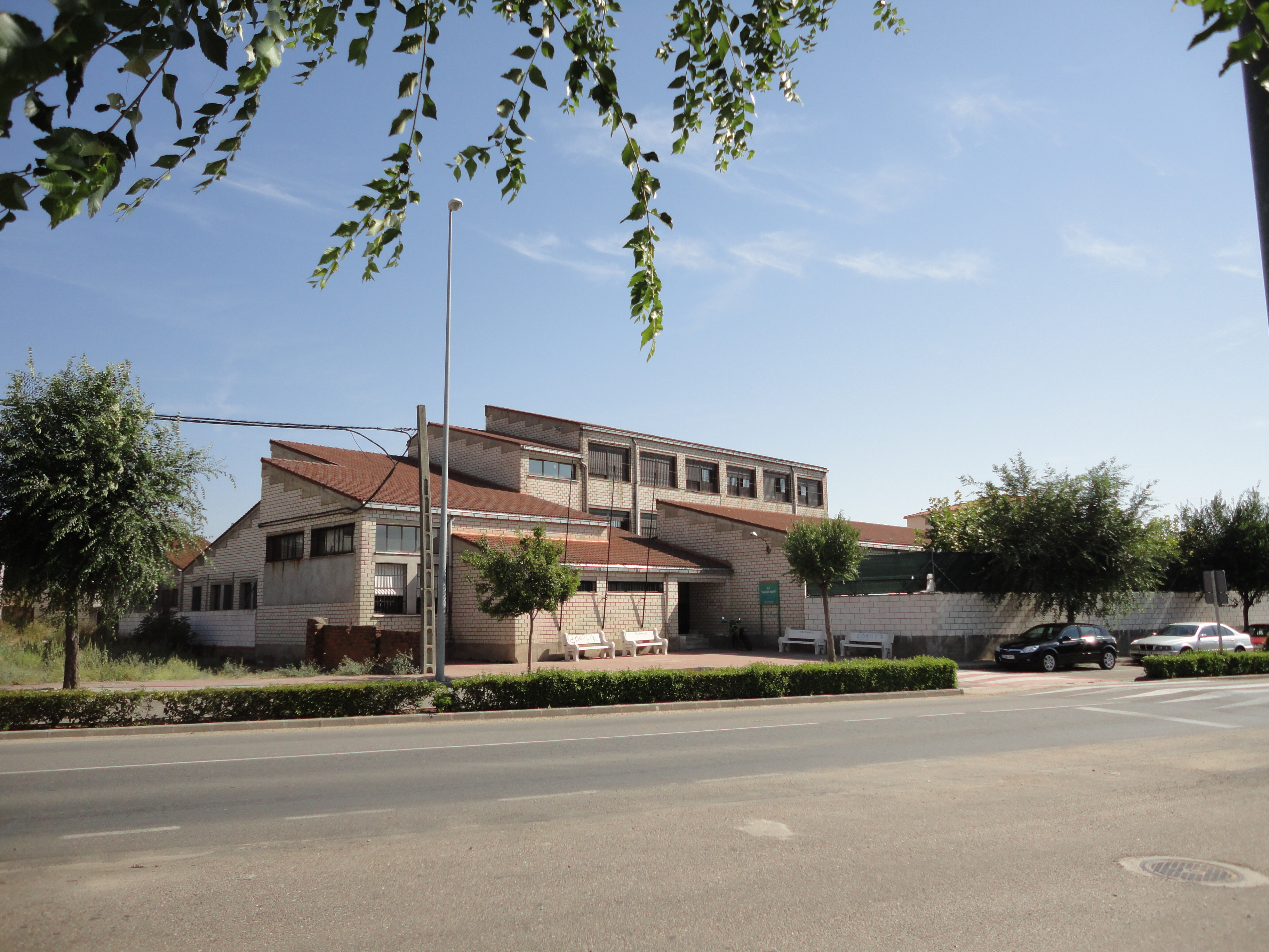 School of the Retamar, in Montehermoso, province of Cáceres, Spain.